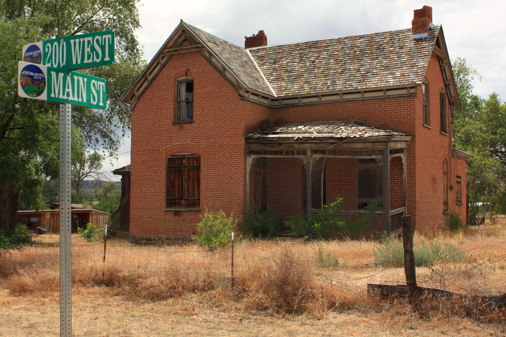 Escalante, Utah, USA, Utah State Route 12, Main Street at 200 West Street, brick house. A signpost in front of the house reads: #45, c.1900, Isaac Riddle.